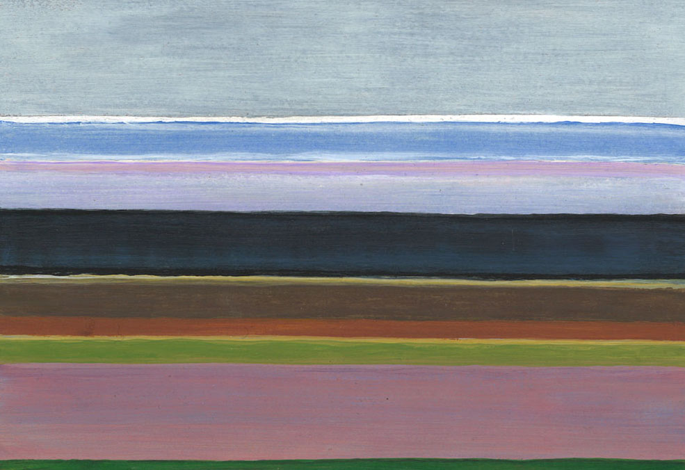 Aurora_ Monte Subasio Assisi, Italien Acryl auf Papier 18 x 26 cm 2013